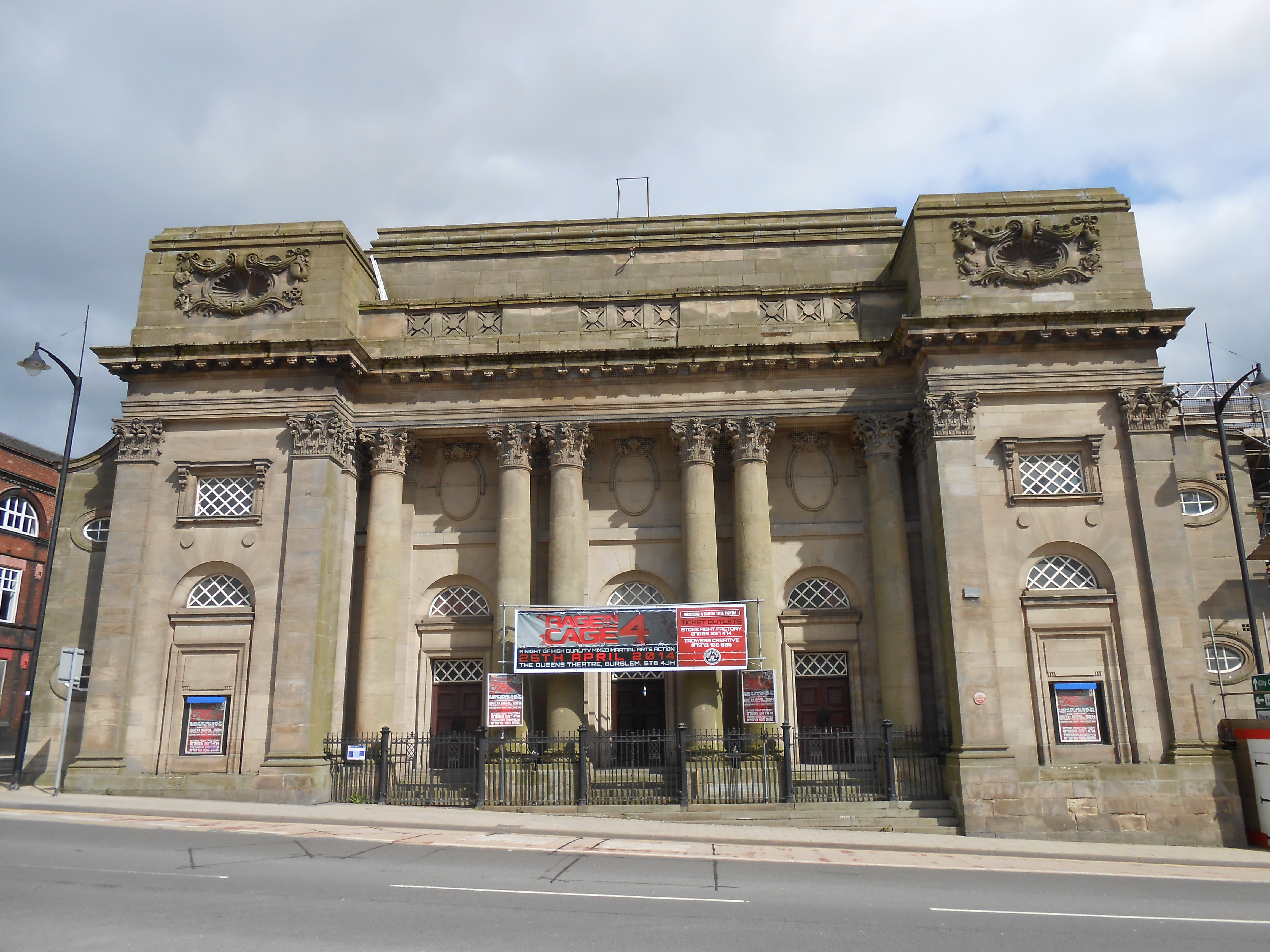 The Queens Theatre, Burslem, Stoke-on-Trent.